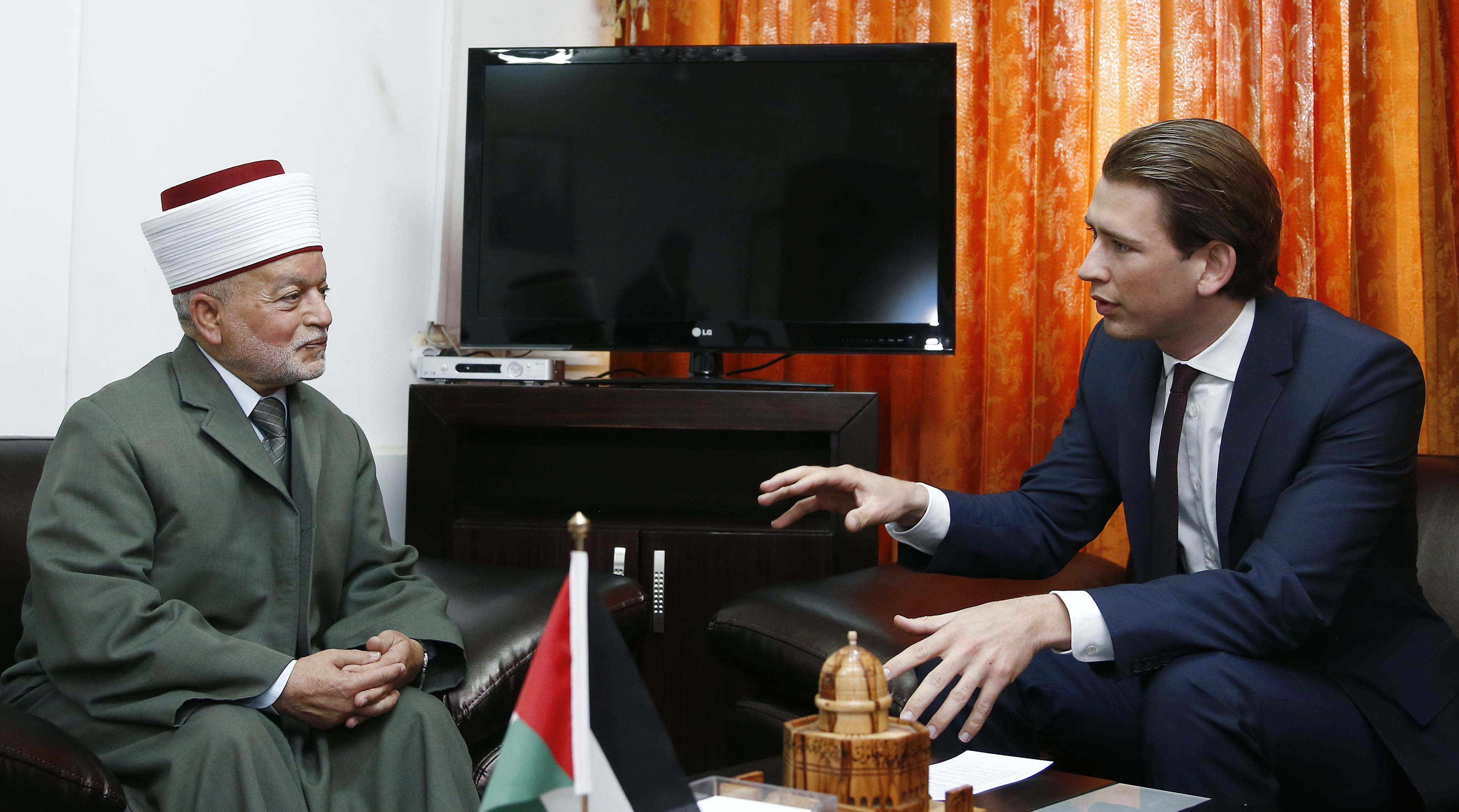 Austrian foreign minister Sebastian Kurz meets the Grand Mufti of Jerusalem, Muhammad Ahmad Hussein (April 2014).